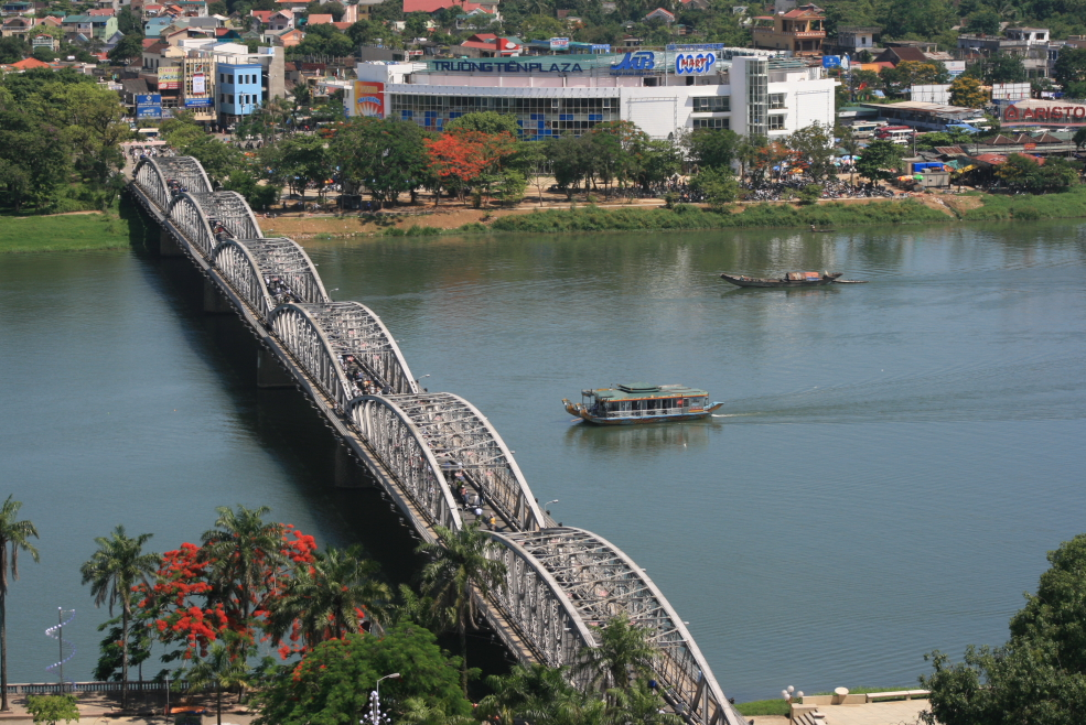 Truong Tien Bridge is reflected in the Huong River, Hue, Viet Nam